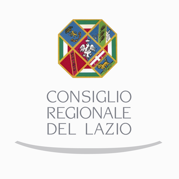 Logo Lazio Regional Council*